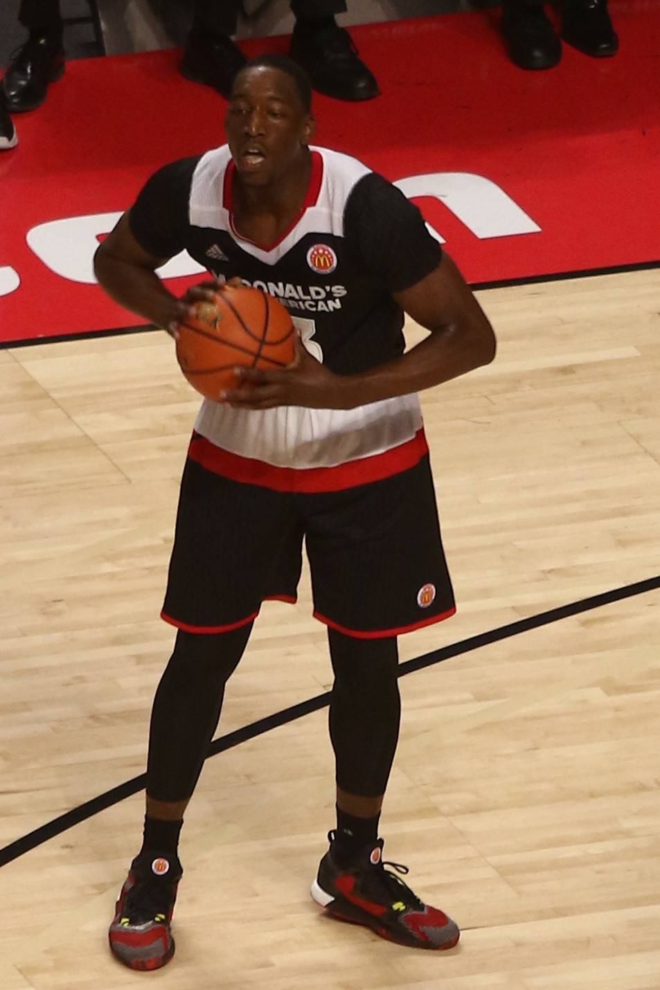 Bam Adebayo at the w:2016 McDonald's All-American Boys Game